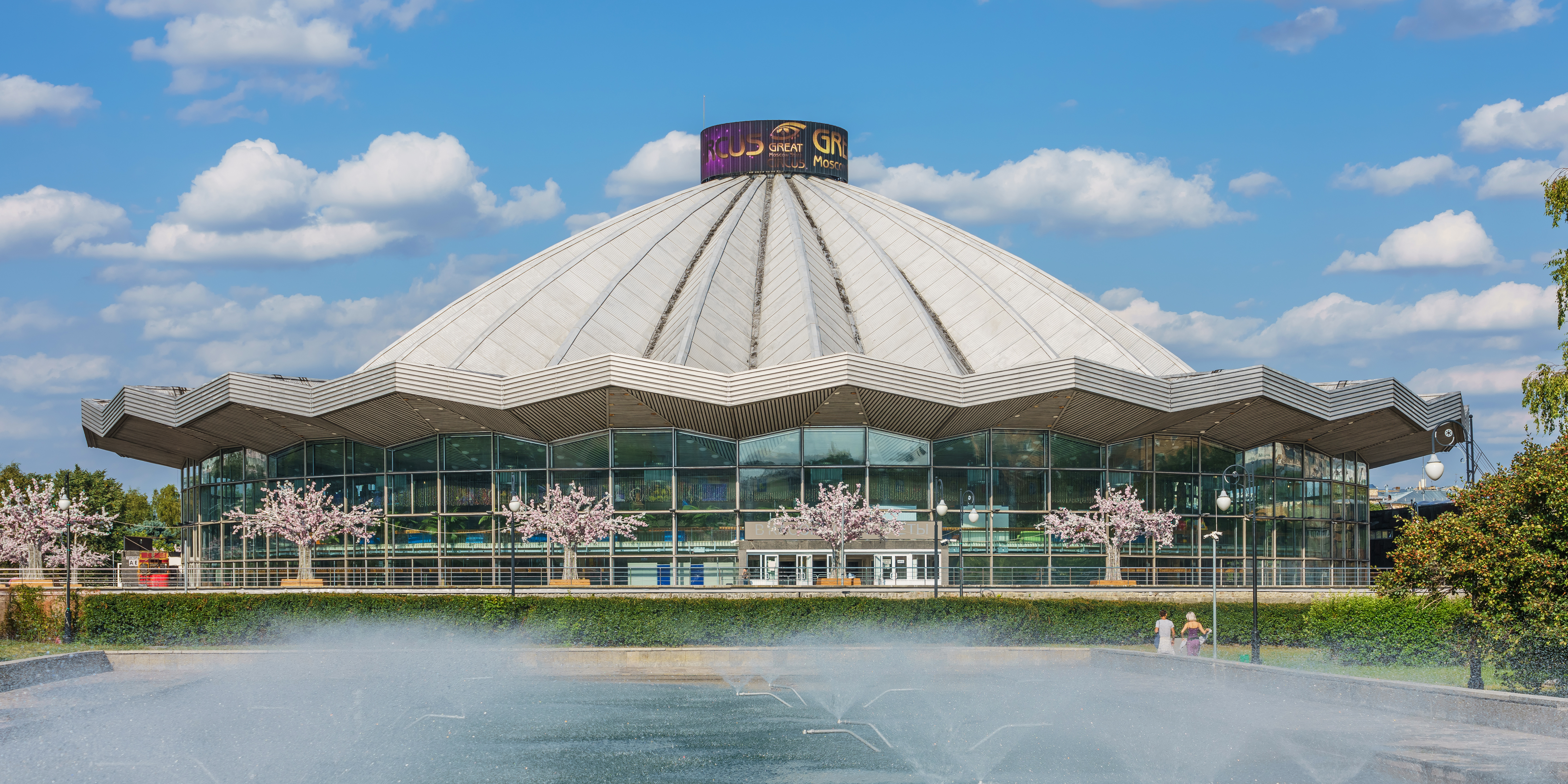 Circus at Vernadskogo Prospekt in Moscow, Russia